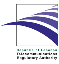 The official logo of the Telecommunications Regulatory Authority of Lebanon